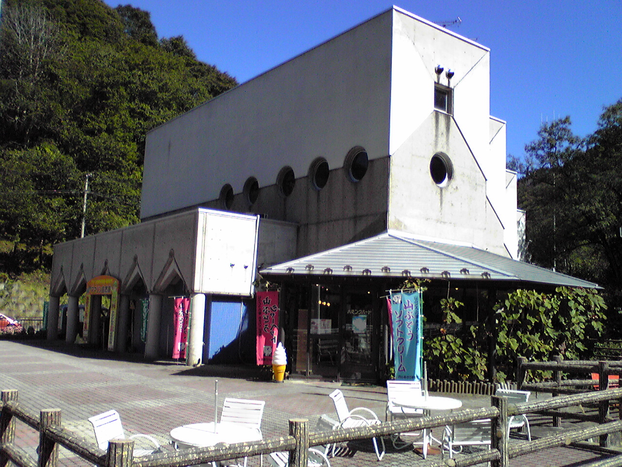 Amazon shizenkan (Amazon Nature Museum) at Michinoeki Gassan in Tsuruoka City, Yamagata Prefecture, Japan